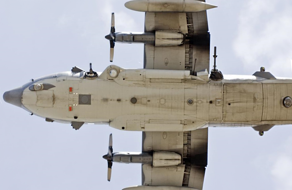 The belly of an AC-130U Spooky gunship is seen as the aircraft flies overhead. In addition to the trainable 25, 40 and 105mm guns, the gunship employs three sensor systems, which include the Strik Radar located inside the aircraft's nose, an infrared detection set (IDS) seen just behind the nose and the ALL-TV sensor located below and to the right of the 25mm Gatling gun.